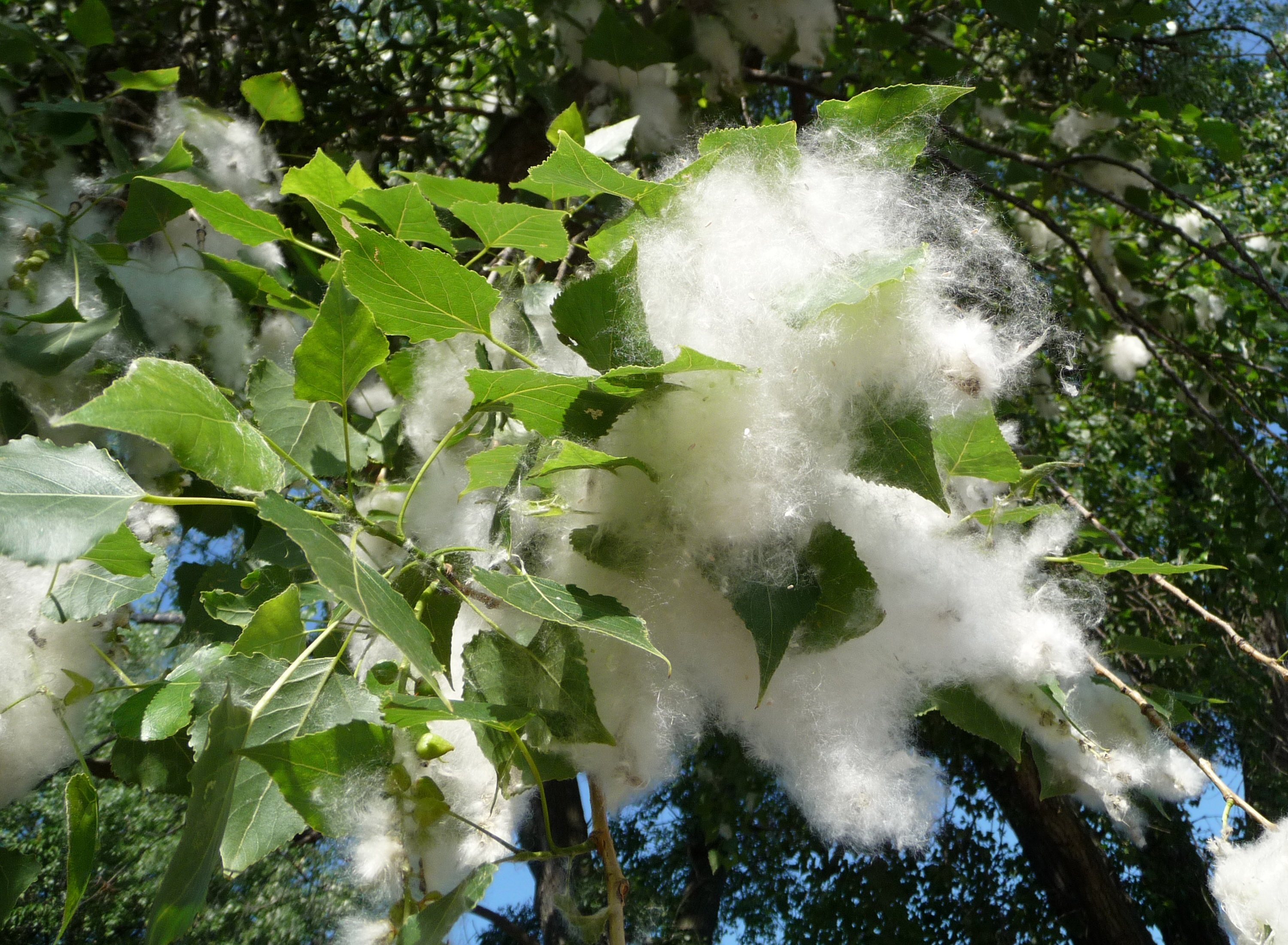 Hybrid Black Poplar (Populus × canadensis) seed capsules shedding seed. Ukraine, Vinnytsia (Vinnitsa)